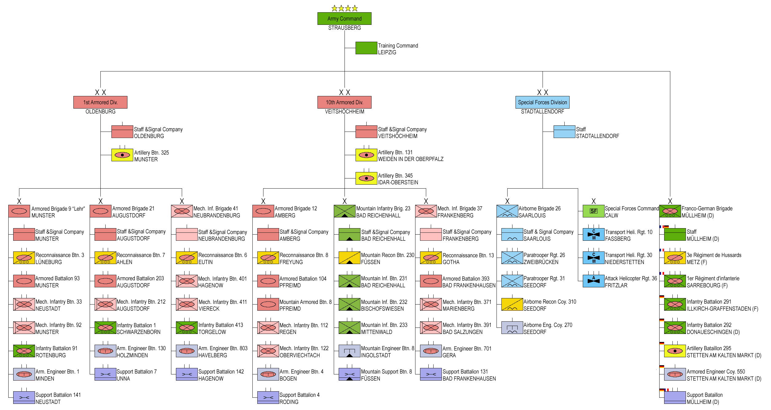 End state of the German Army after the reorganization 2012.